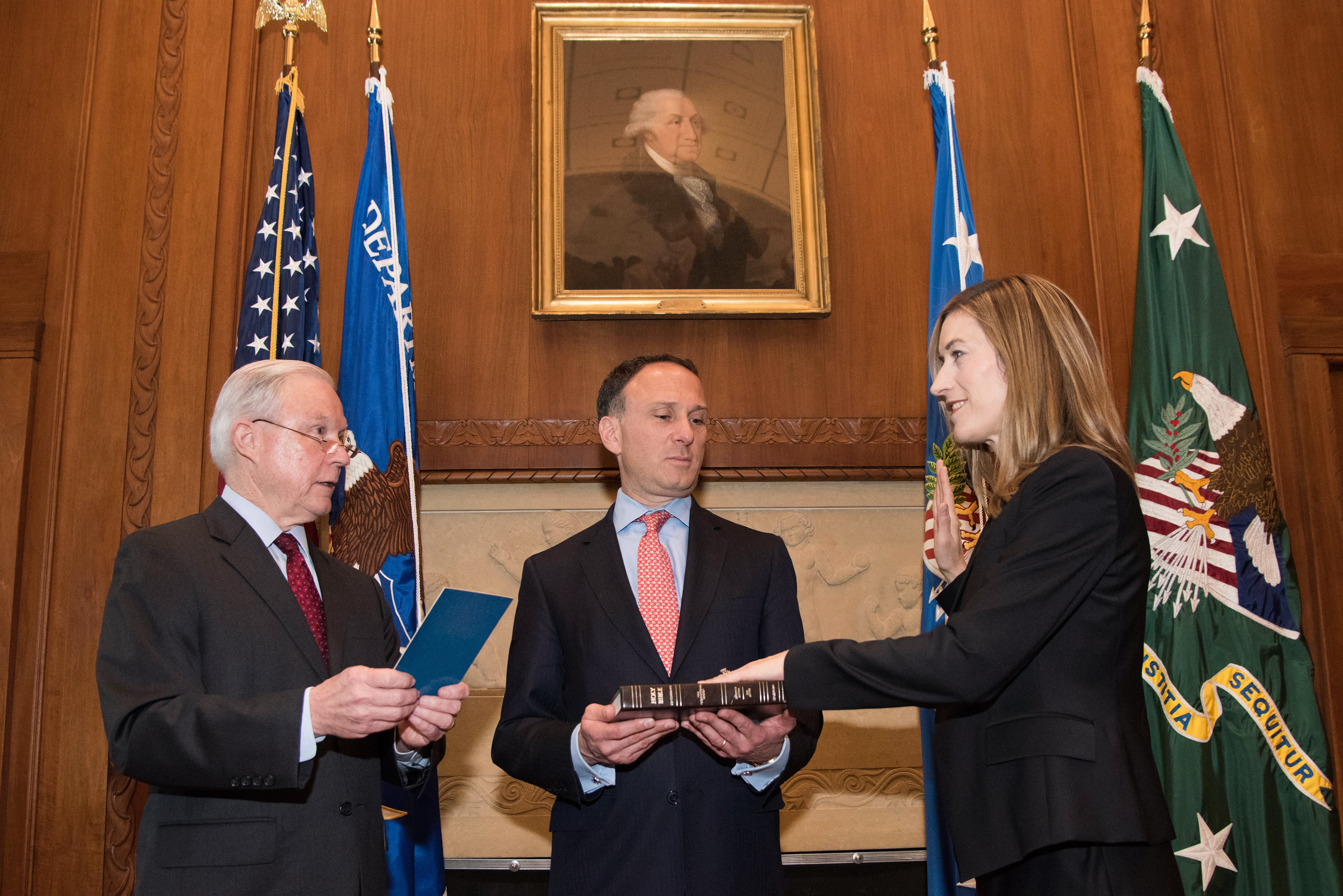 Swearing in of Rachel Brand as Associate Attorney General.